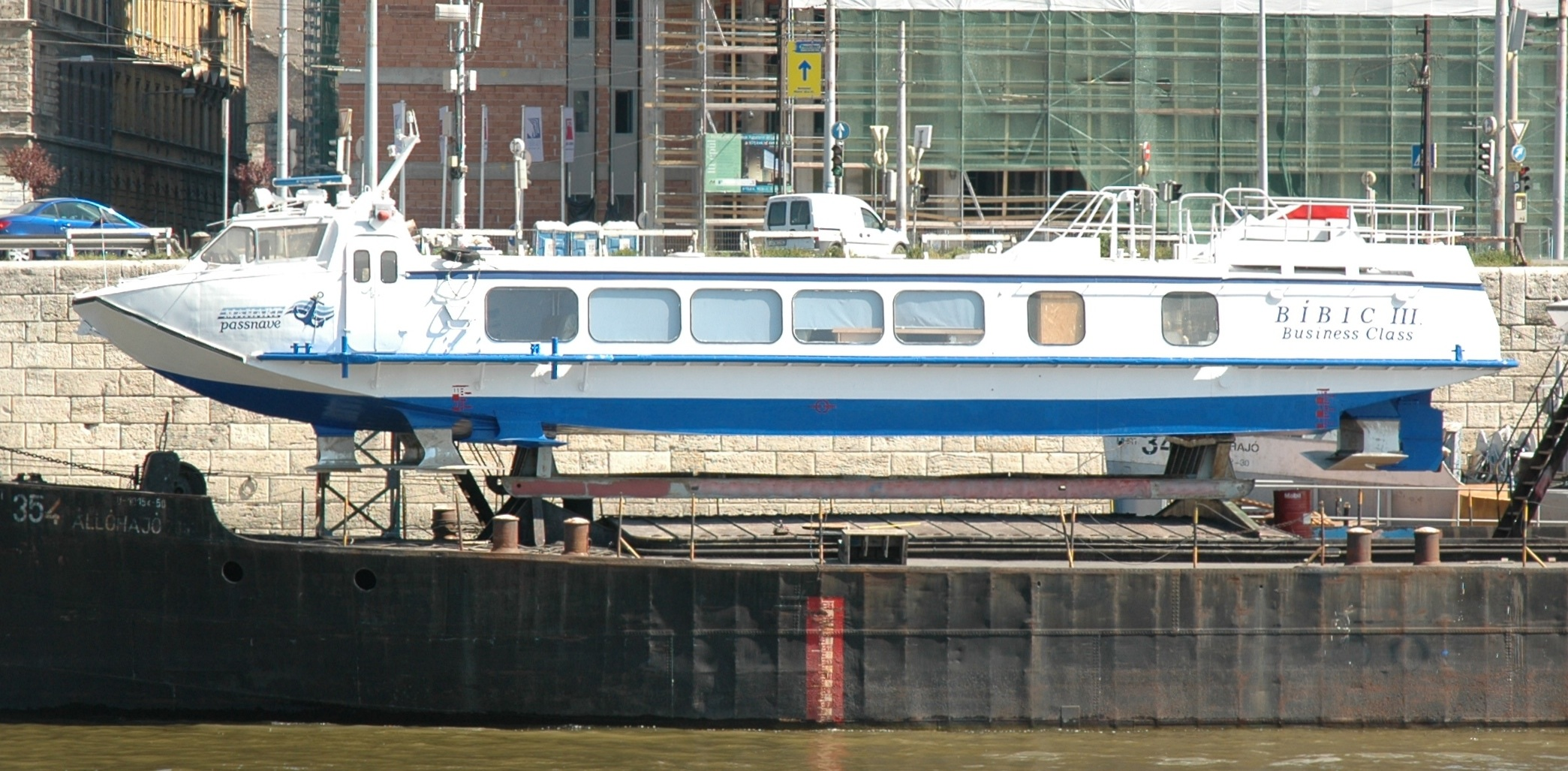 Bibic III Polesye class hydrofoil in Budapest